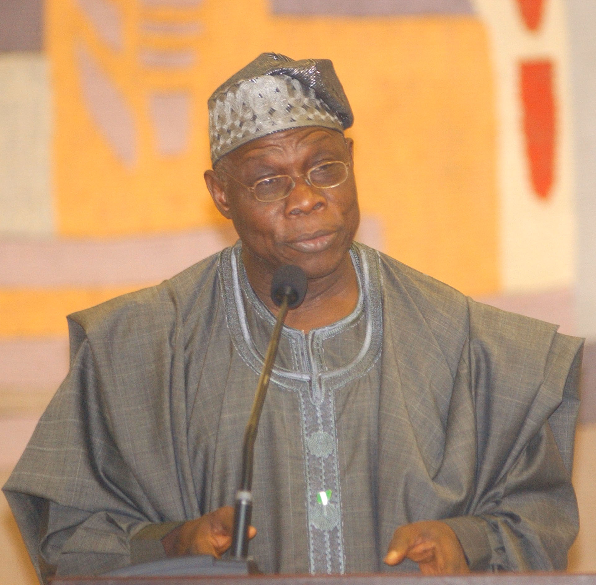 Olusegun Obasanjo, president of Nigeria, Brasília, 6 September 2005. Photographer: José Cruz/ABr.